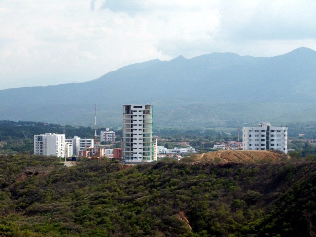 Sur de Cucuta